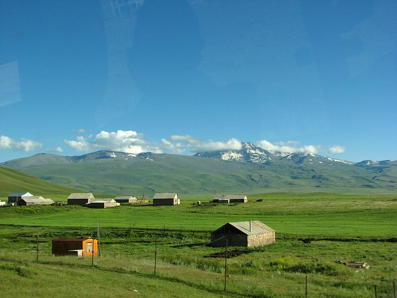 Tsilkar, Armenia